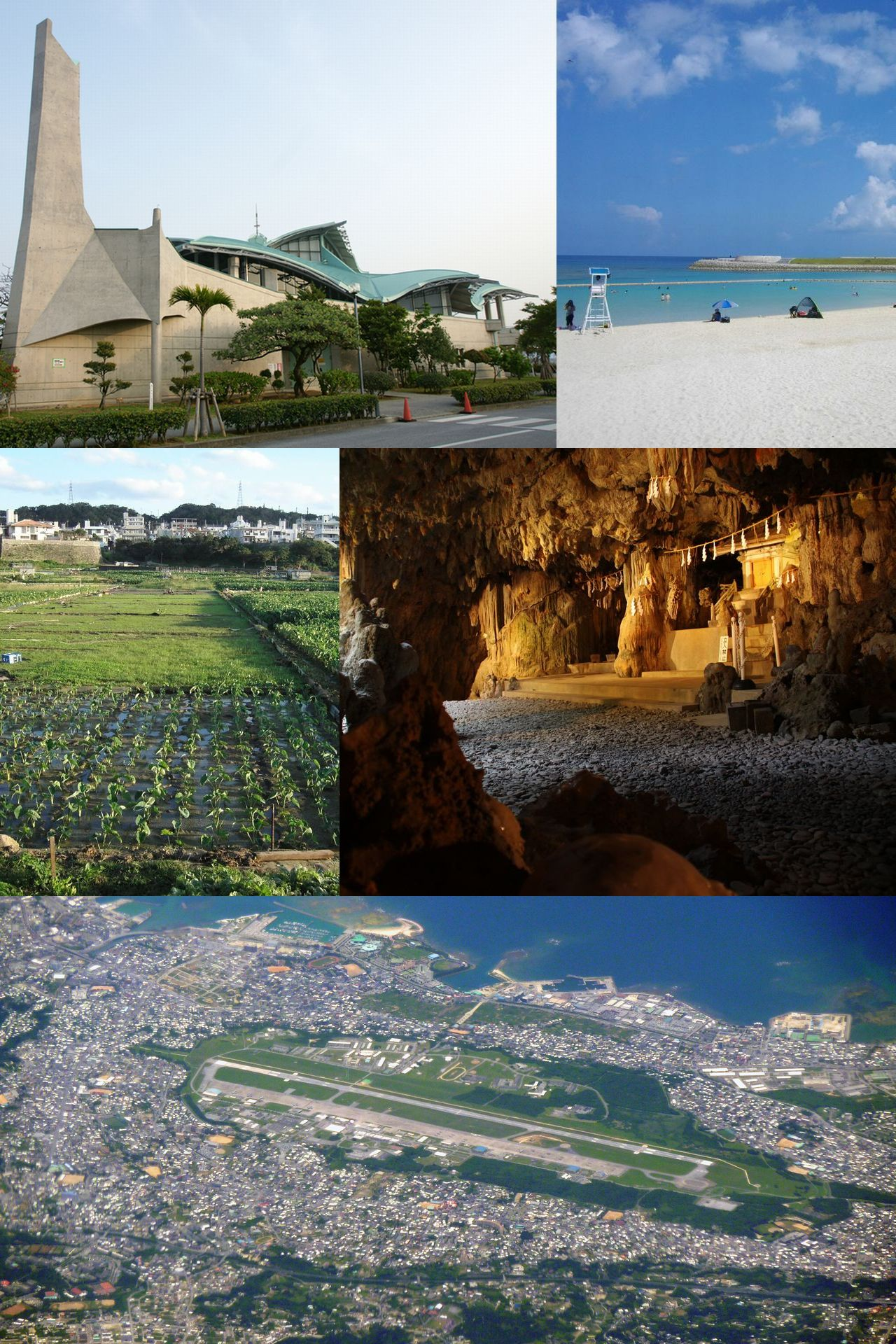 This image is montage of Ginowan, Okinawa prefecture, Japan upper left : Okinawa Convention Center upper right : Ginowan Tropical Beach middle left : Colocasia esculenta schott var. aquatilis kitamura (called Taimo in Japanese, one of the same family of eddoe) field in Oyama middle right : Futenma shrine bottom : Marine Corps Air Station Futenma